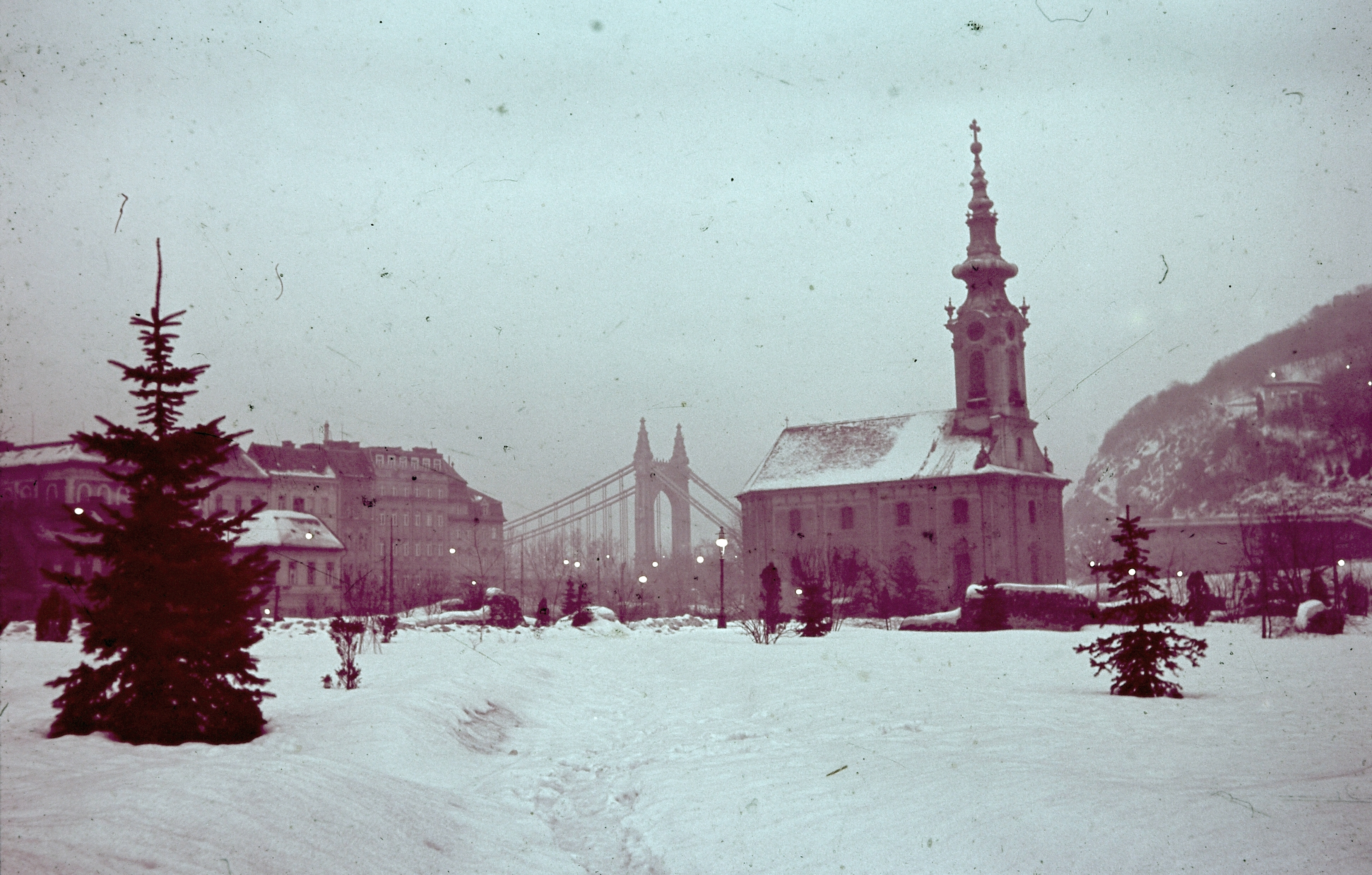 The Orthodox Cathedral of Saint Demetrius, the houses of Döbrentei tér and Erzsébet híd from Tabán Park.